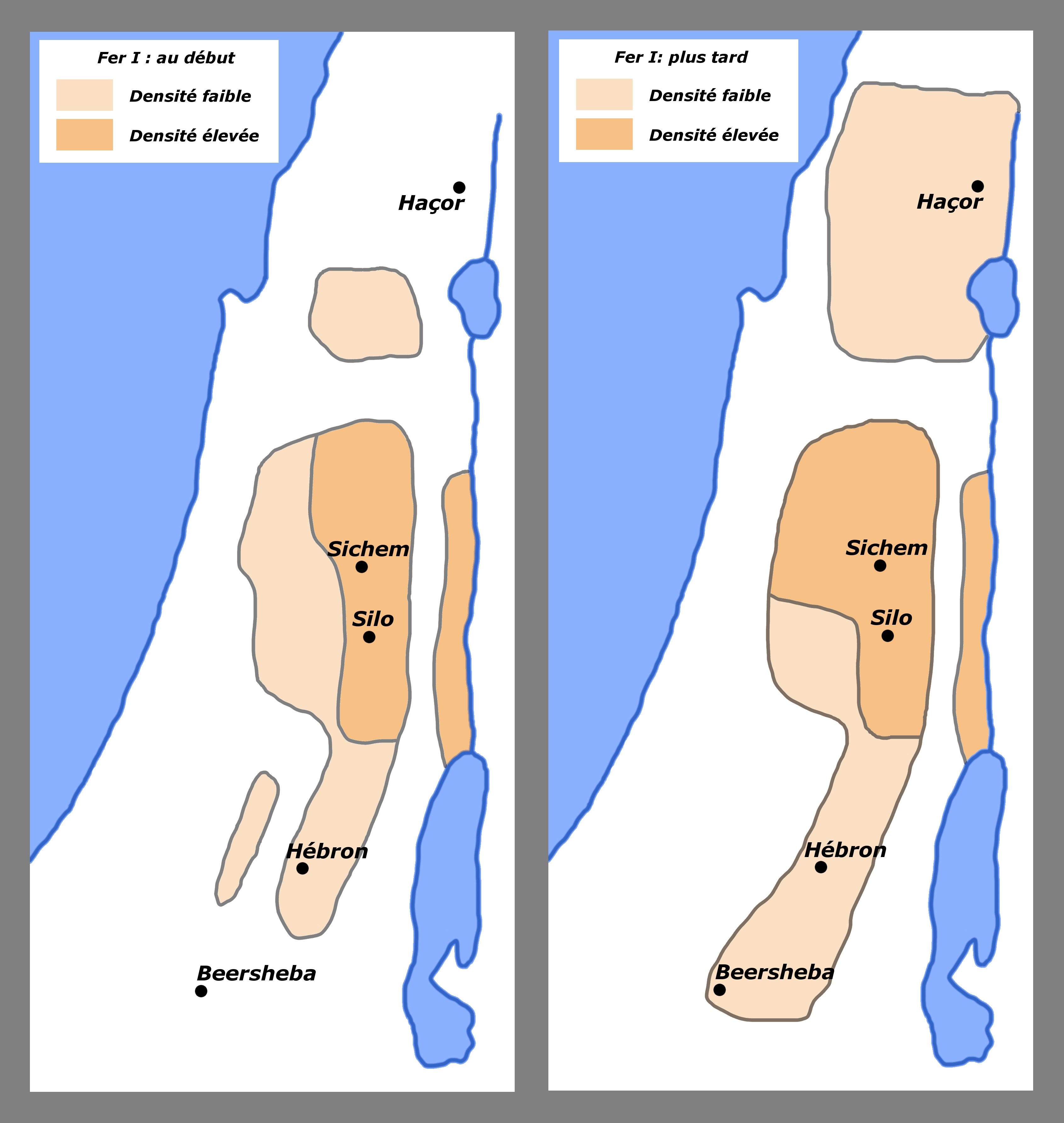 Two density maps showing the spread of the Israelites population at Iron I age. Drawn from two maps by Israël Finkelstein, The Archaeology of the Israelite Settlement, Brill Academic Pub, (April 1988), p.325 et p.329.